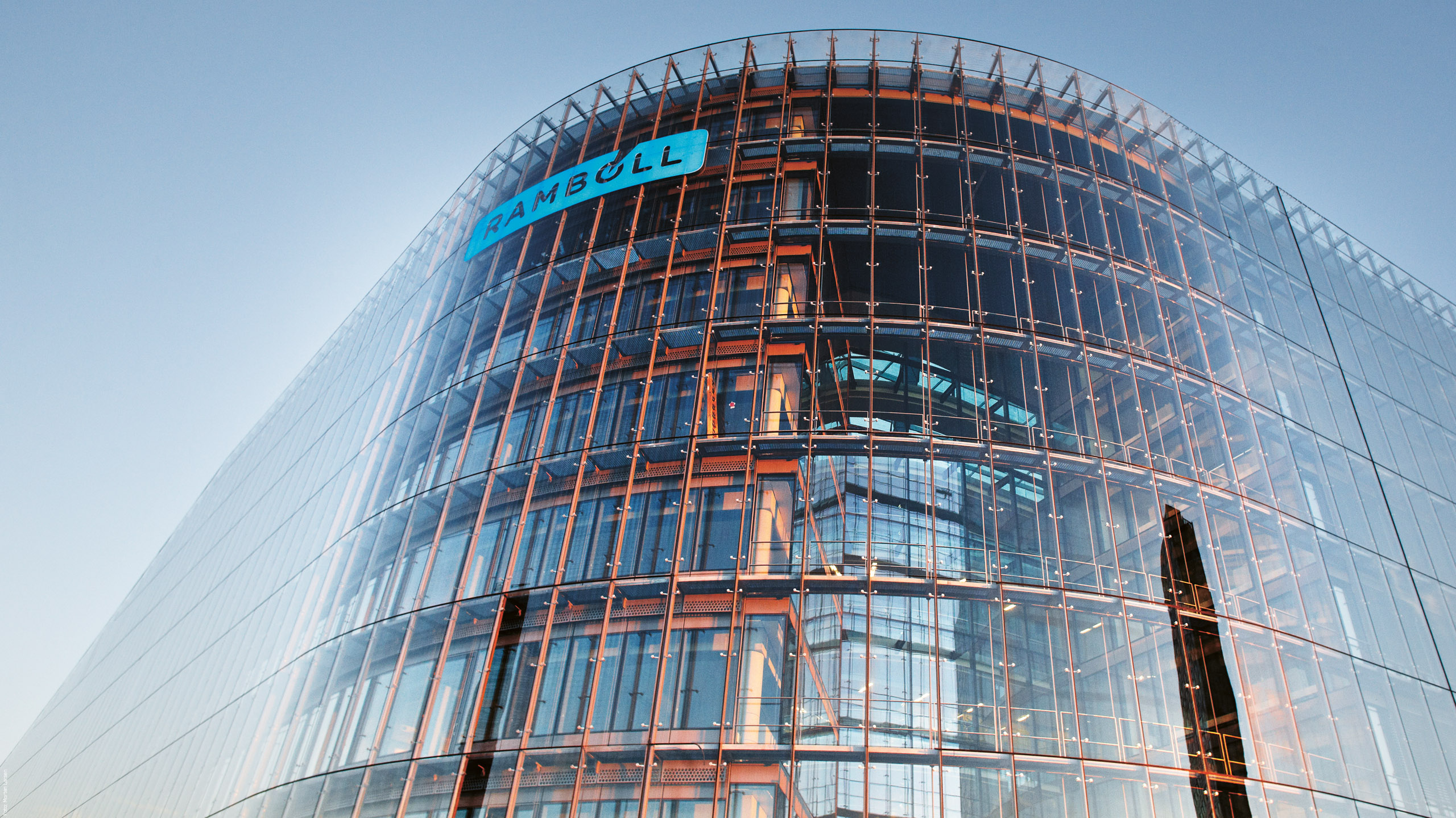 Photo of Ramboll's head office in Ørestaden, outside Copenhagen, DenmarkDansk: Foto af Rambølls hovedkontor i Ørestad, uden for KøbenhavnNorsk bokmål: Foto av Rambølls hovedkontor i Ørestad, utenfor København